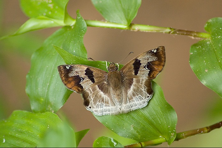 by Dhaval Momaya during August 2007 at Maredumilli, Rajahmundry, Andhra Pradesh.